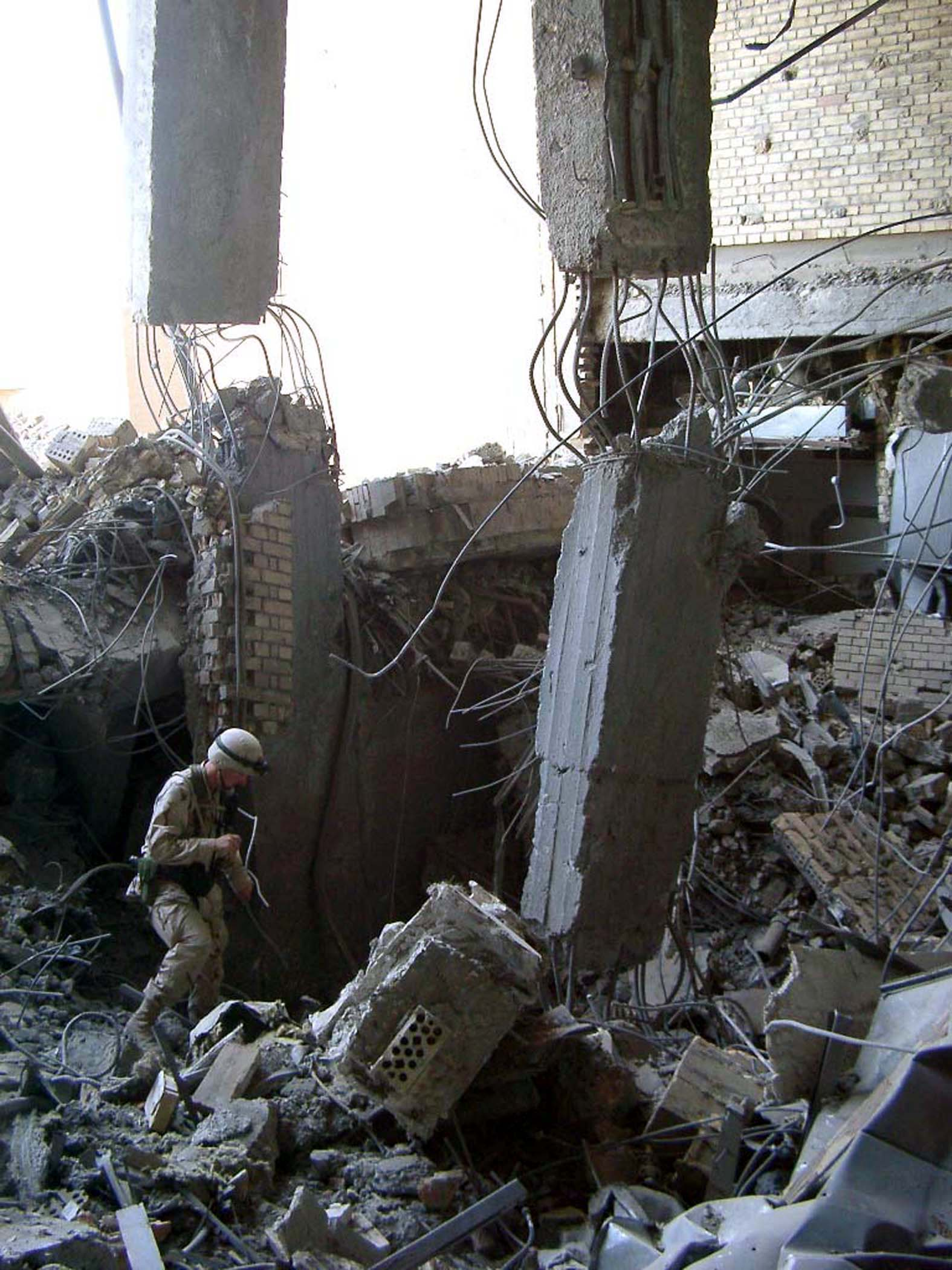 Central Command Area of Responsibility (Jun. 22, 2003) -- U.S. Navy Lt. Cmdr. Leonard Yowell examines the effectiveness of a Joint Direct Attack Munition (JDAM) at one of Saddam Hussein’s presidential palaces. Lt. Cmdr. Yowell is one of nearly One Hundred experts assigned to the Combined Weapons Effectiveness Assessment Team (CWEAT). CWEAT is comprised of coalition forces visiting up to 500 impact points, targeted by the coalition air component during Operation Iraqi Freedom. CWEAT assesses how well weapons achieved the intended operational effects to improve efficiency in future operations. U.S. Air Force photo by Capt. Patricia Lang. (RELEASED)